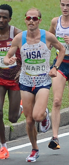 Rio de Janeiro - Sob chuva forte atletas da maratona masculina passam pelo aterro do Flamengo (Tânia Rêgo/Agência Brasil)